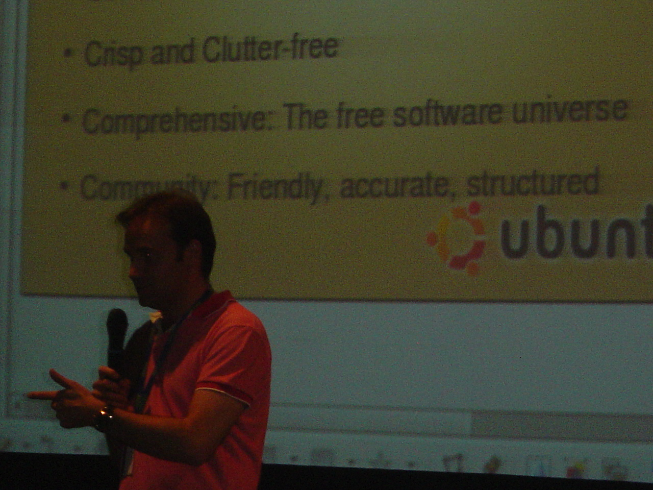 Mark Shuttleworth at Campus Party 2007